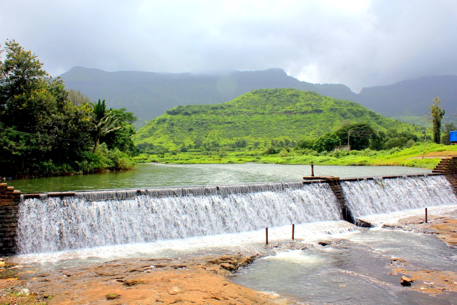 This photo is taken from Ganesh Ghat Neral. Covering Ganesh Ghat Dam, Motar Hill and Matheran Hills